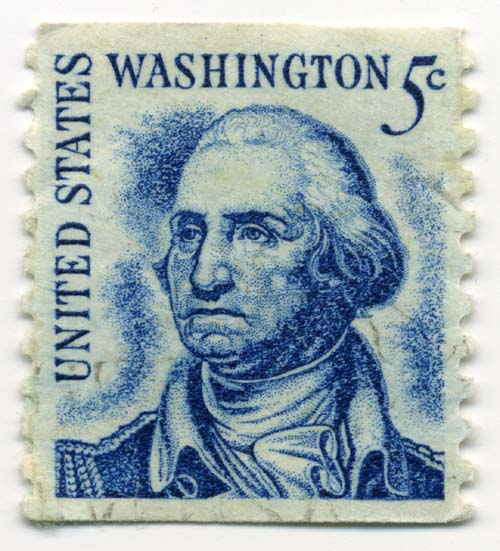 Scan of United States 5c "dirty face Washington" stamp of 1966